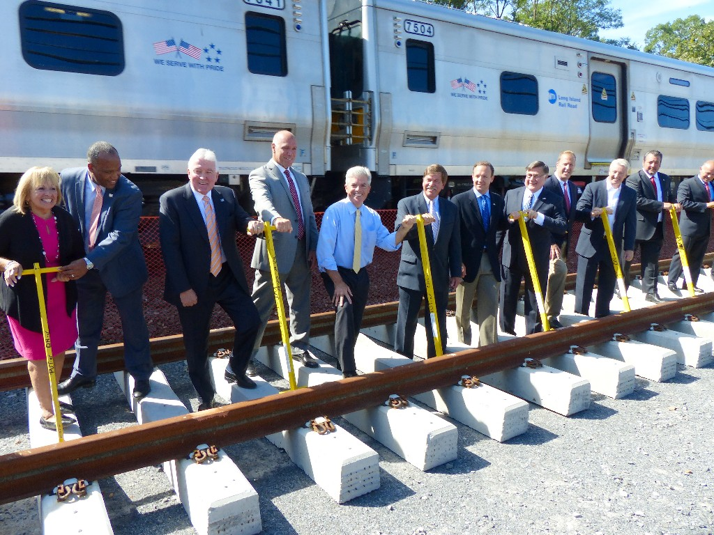 MTA LIRR press conference announcing the Double Track Project on the Ronkonkoma Branch. Workers began installing the first sections of rail on the $388M project which will build a second track over an 18-mile stretch between Farmingdale and Ronkonkoma stations. Photo: MTA Long Island Rail Road / John Spoltore